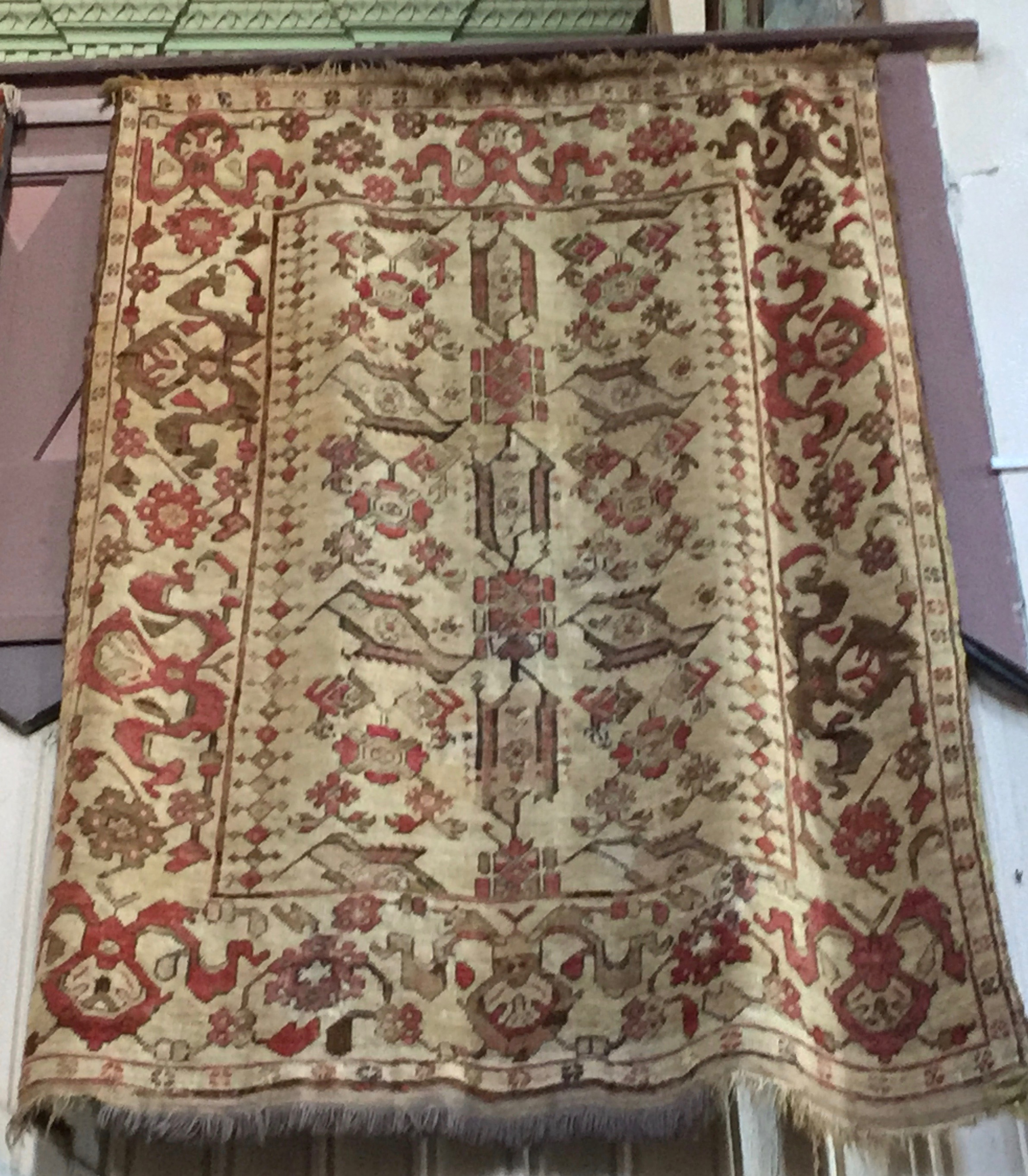 White-ground "Selendi" rug with bird-like ornaments. Woven in Anatolia, it has survived in the Monastery Church of Sighișoara, Romania. Northern gallery, 2017